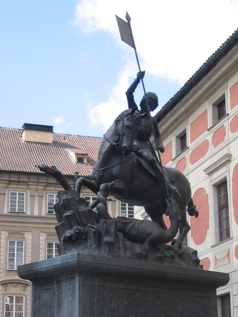 statue of St. George and the Dragon in the Castle of Prague